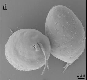 Figure 2. Morphology of representatives of Kinetoplastea (Trypanosoma brucei), Diplonemea (Diplonema papillatum), and Euglenida (Euglena gracilis). Scanning electron microscopy (SEM) (a, d, g) and differential interference contrast (DIC) (b, e, h) reveal cell morphology, whereas 4′,6-diamidino-2-phenylindole (DAPI) staining provides information about the amount and distribution of mitochondrial DNA (c, f, i). (c) Trypanosoma with distinct nucleus (N) and kinetoplast (K). (f) In Diplonema, arrows point to large amounts of mitochondrial DNA meandering through the cell. Scale bars = 1 μm (a, d) and 10 μm (g).